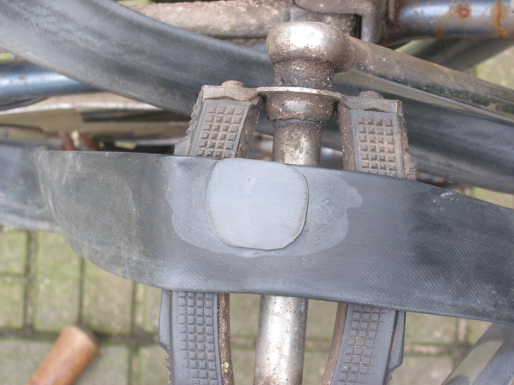 Bicycle tyre repair.